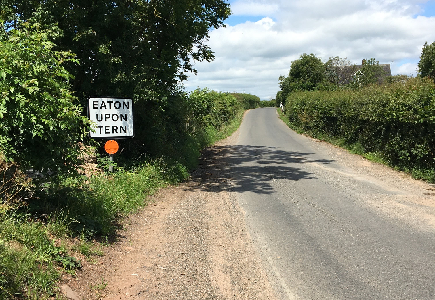 A road sign welcoming pedestrians and drivers to the small village of Eaton upon Tern, Shropshire, England.